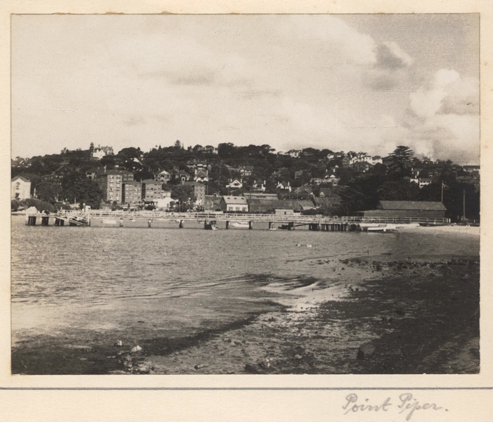 RAHS/Osborne Collection